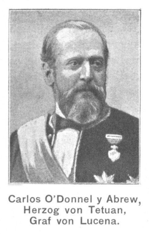 Portrait of Carlos O'Donnel (1834-1903), Spanish nobleman and politician, mainly minister of foreign affairs.